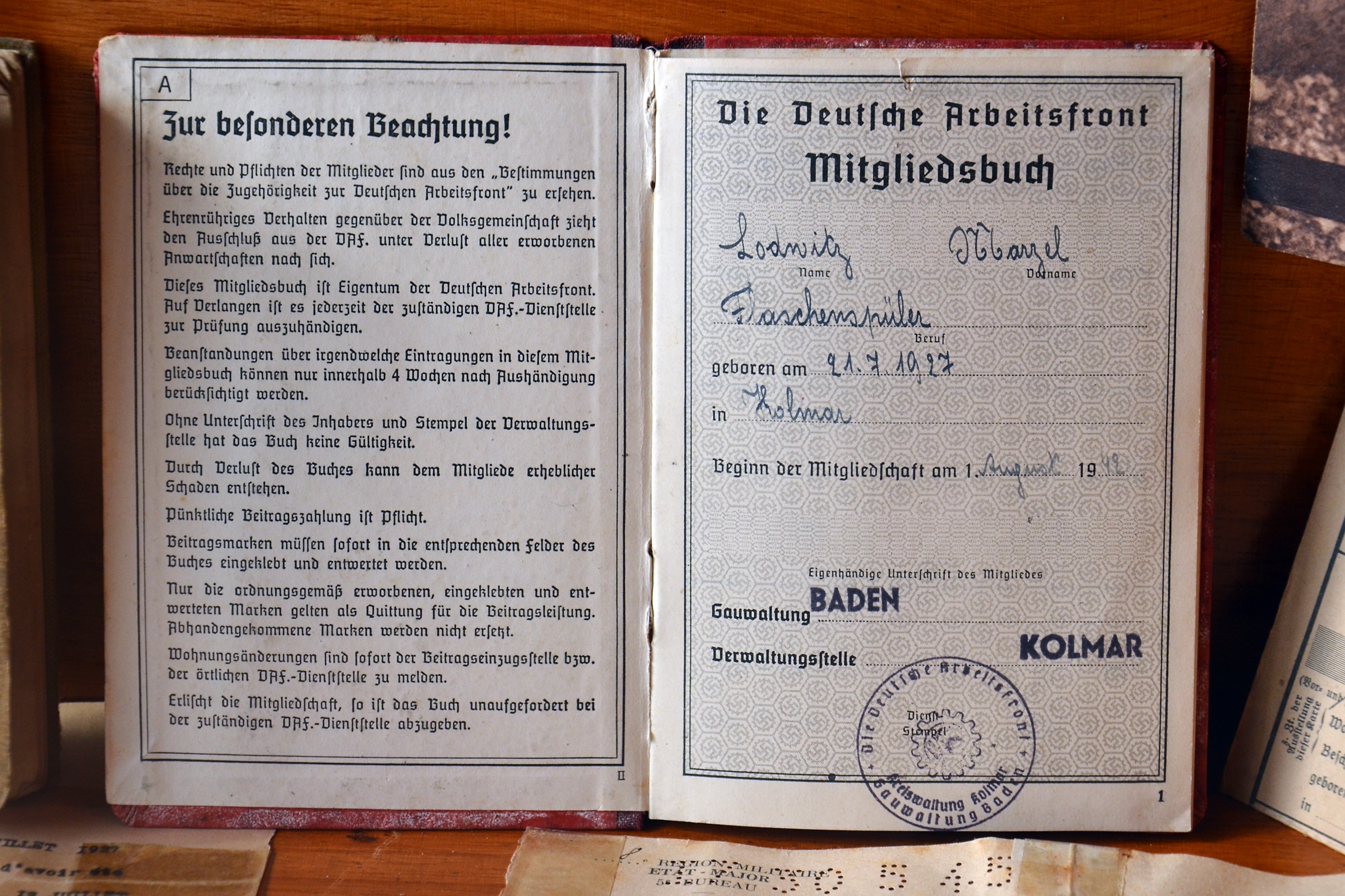 WW II Historical Museum Hatten, (Musée de l'Abri Hatten)